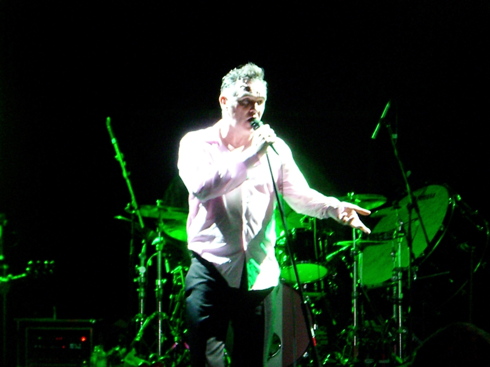 Morrissey. Live at SXSW, Austin, Texas, USA